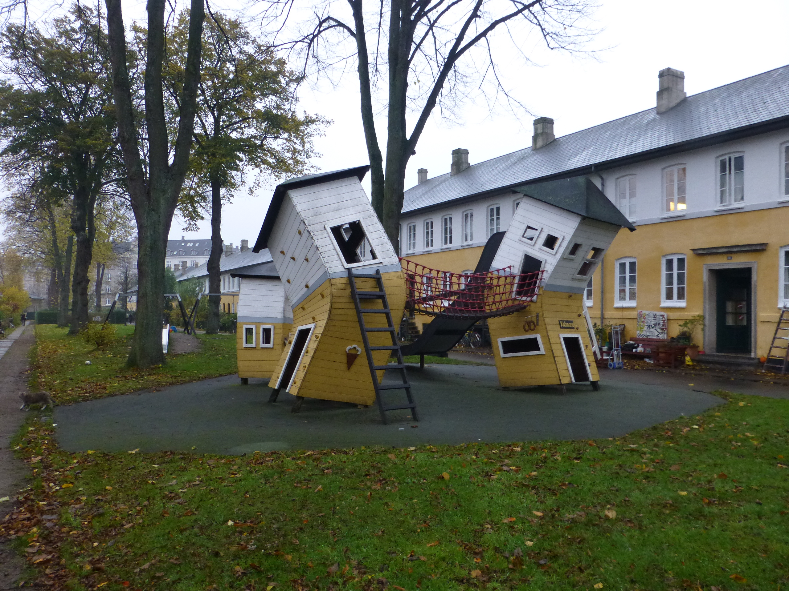 The area Brumleby in Østerbro in Copenhagen.